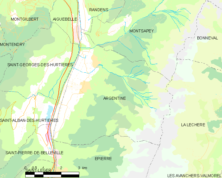 Map of French municipality